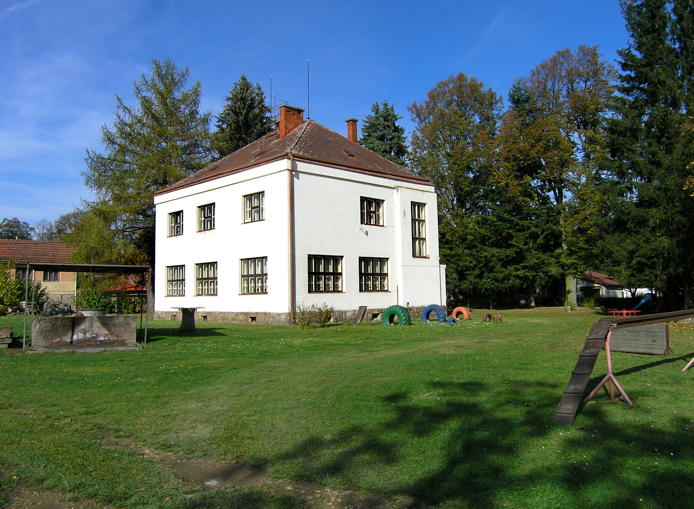 Municipal office in Plandry village, Czech Republic